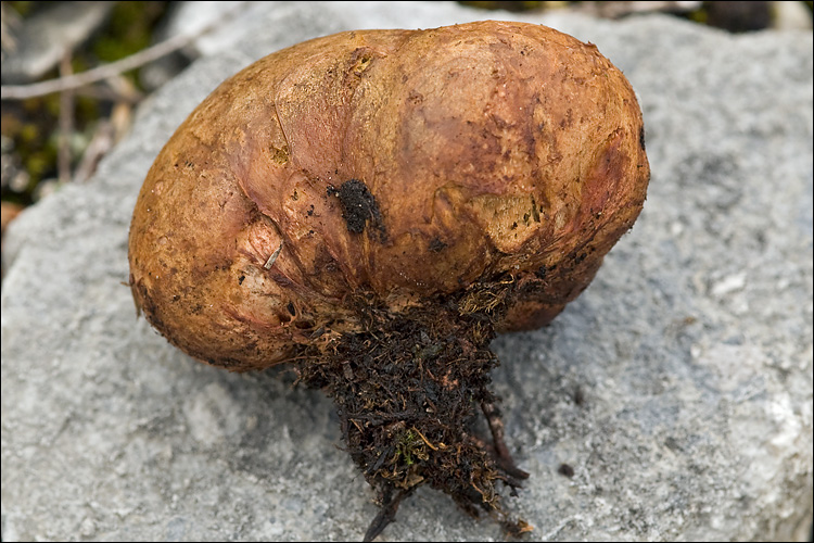 Rhizopogon obtextus Image location: Lower Trenta Valley, East Julian Alps, Posočje, Slovenia Lat.: 46.37751 Long.: 13.74476 Code: Bot_379/2009-3725 Habitat: Scree and sand, flat ground, deposits of a nearby torrent, nutrient poor calcareous ground, barely covered by vegetation with dominant Globularia cordifolia, Carex sp., Cladonia sp. and some mosses, among scattered young Pinus sp., dry place, full sun, fully exposed to rain, average precipitations ~3.000 mm/year, average temperature 6-8 deg C, elevation 600m (2.000 feet), alpine phytogeographical region. Substratum: sandy soil Place: right bank of river Soča, near ‘Matoja’ inn, lower Trenta village, Trenta valley, East Julian Alps, Posočje, Slovenia EC Nikon D70 / Nikkor Micro 105mm/f2.8 Recognized by sight Used references: M.Bon, Pareys Buch der Pilze, Kosmos (2005), p 302. R.M.Daehncke, 1200 Pilze in Farbfotos, AT Verlag (2009), p 1097. . Based on microscopic features: Spore dimensions: 7.8 (SD=0.7) x 3.3 (SD=0.2) micr, Q=2.3 (SD=0.22), n=35. For more information about this, see the observation page at Mushroom Observer.